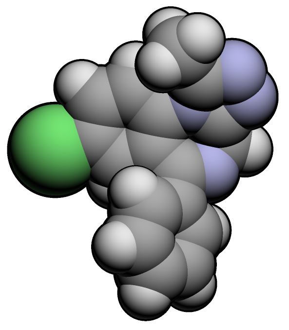 Molecular spacefill of Alprazolam